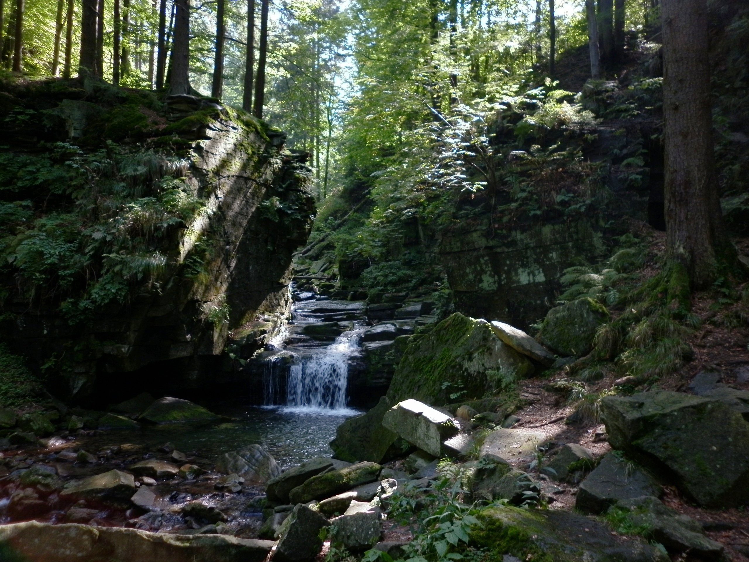 Natural monument "Vodopády Satiny" in Frýdek-Místek District, Czech Republic. Rocky stream with waterfalls.